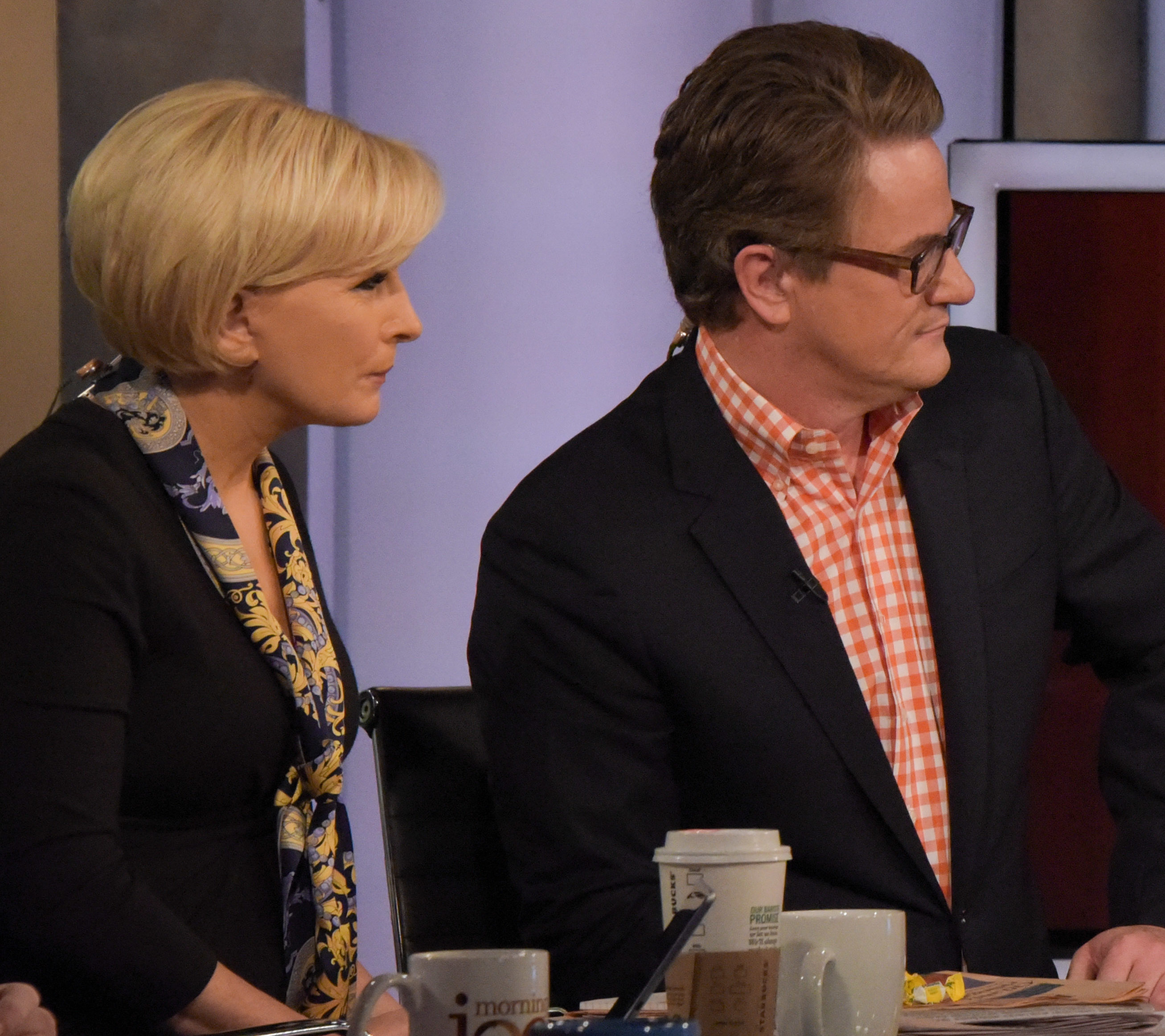 WASHINGTON - Secretary of Homeland Security Jeh Johnson appears on MSNBC’s Morning Joe discussing the massive security efforts for the inauguration in Washington, D.C., Jan. 19, 2017. The show features interviews with top newsmakers and politicians and in-depth analysis of the day's biggest stories. Official DHS photo by Jetta Disco.